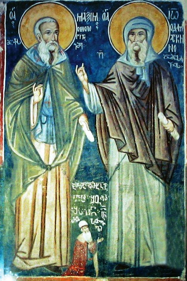 A Georgian fresco and inscriptions from Jerusalem. Sts. John of Damascus, Maximus Confessor, with Shota Rustaveli praying.